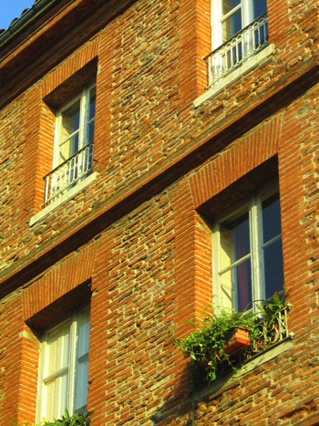 Brick building in Toulouse.